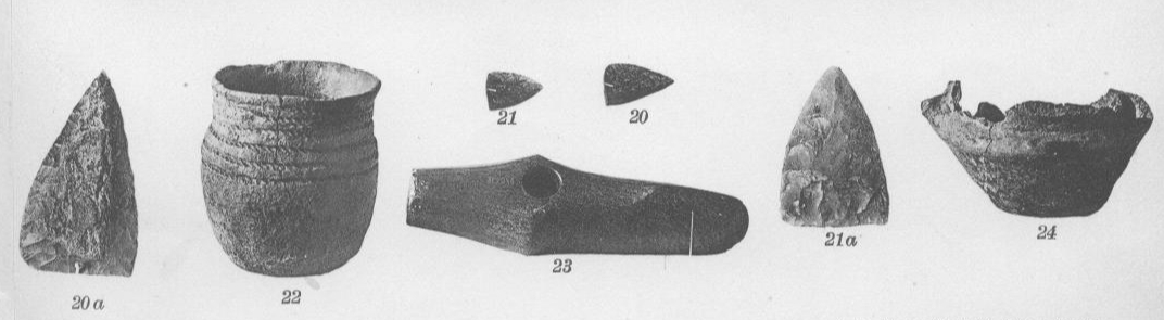 Finds from the Mound